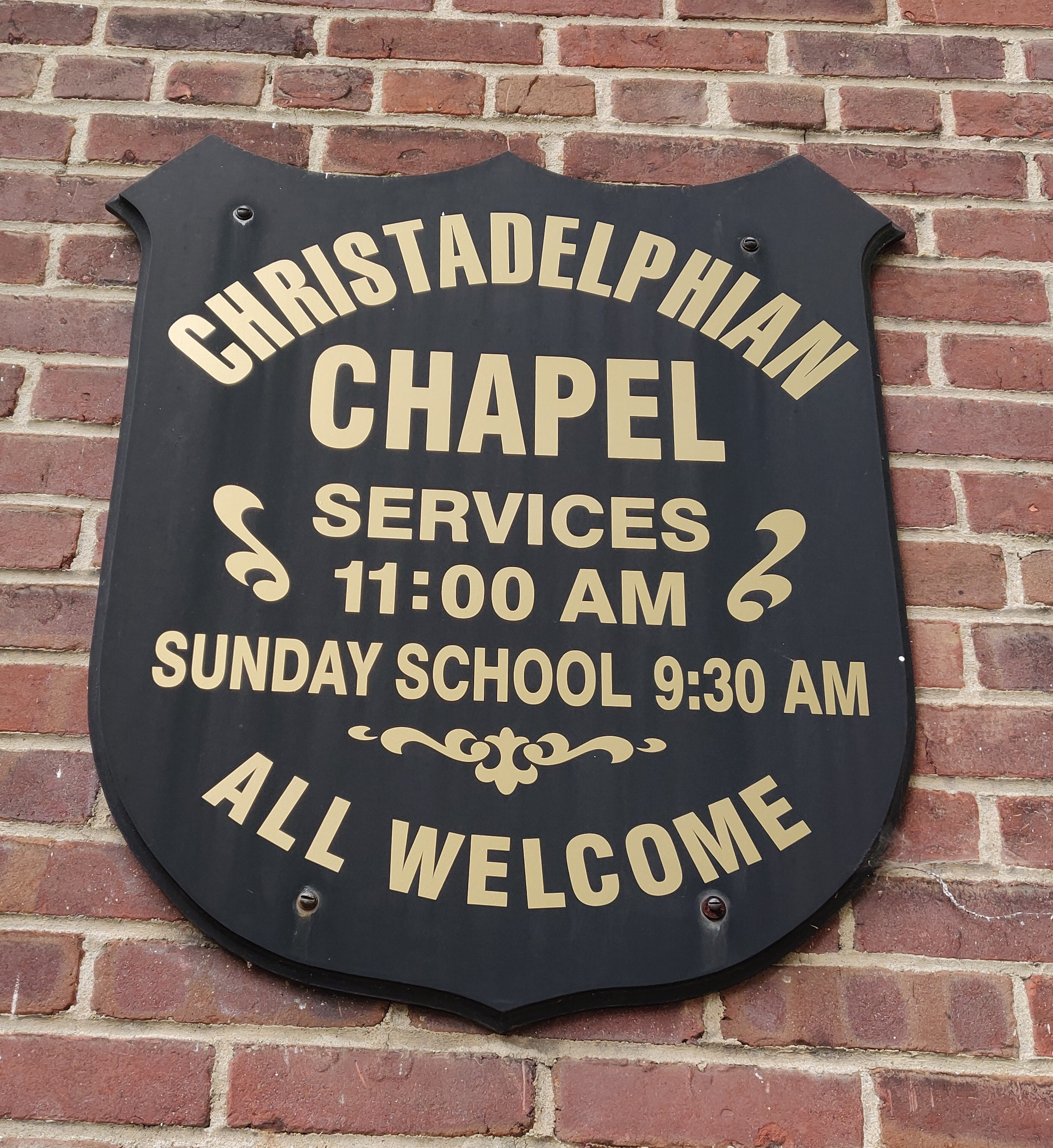 A sign showing the service time for a Christadelphian ecclesia in Richmond, Va.